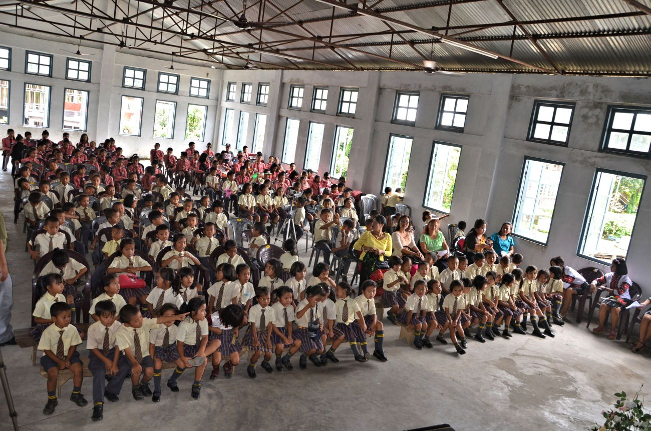 Students of Nuchhungi English Medium School, Hnahthial